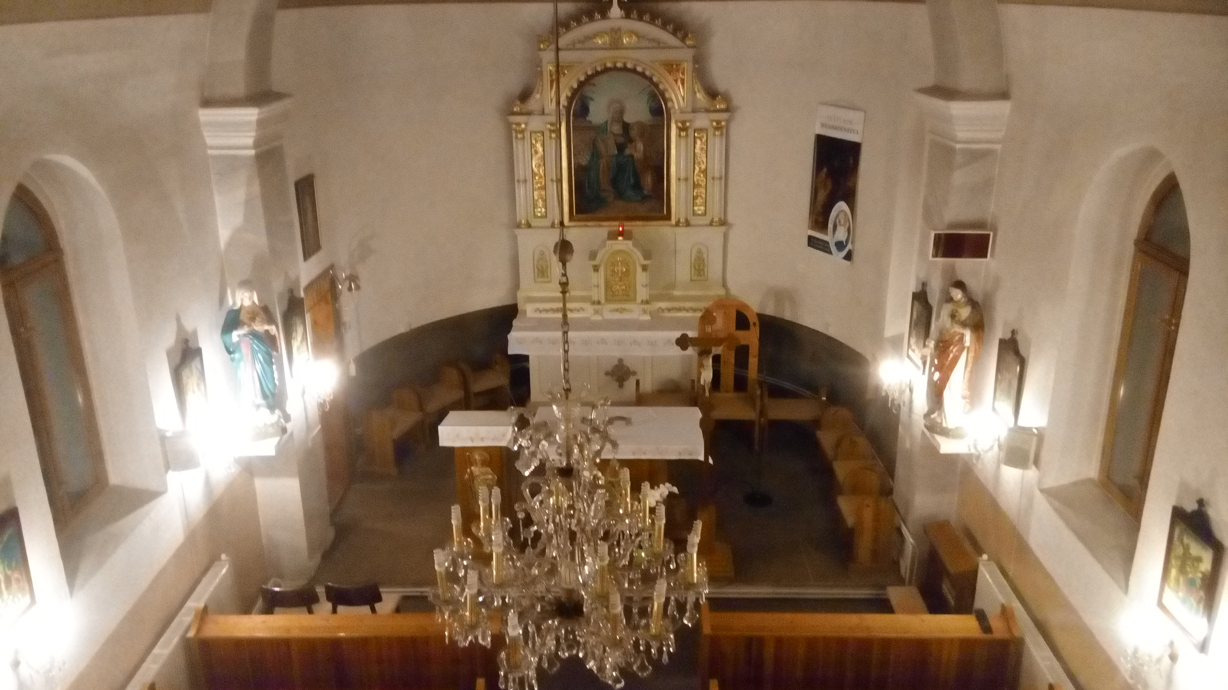 Church st. Anne